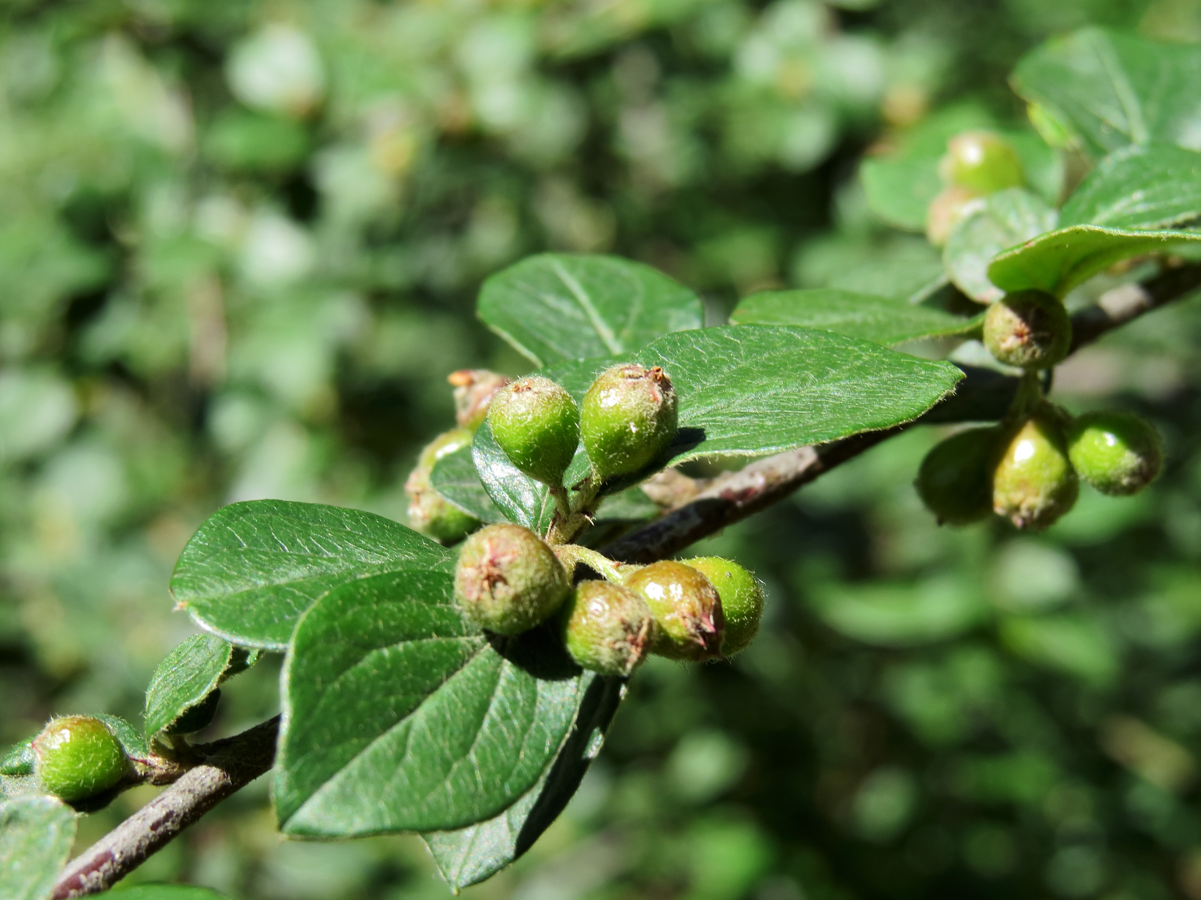 Cotoneaster dielsianus in Fomin botanical garden, Kiev, Ukraine